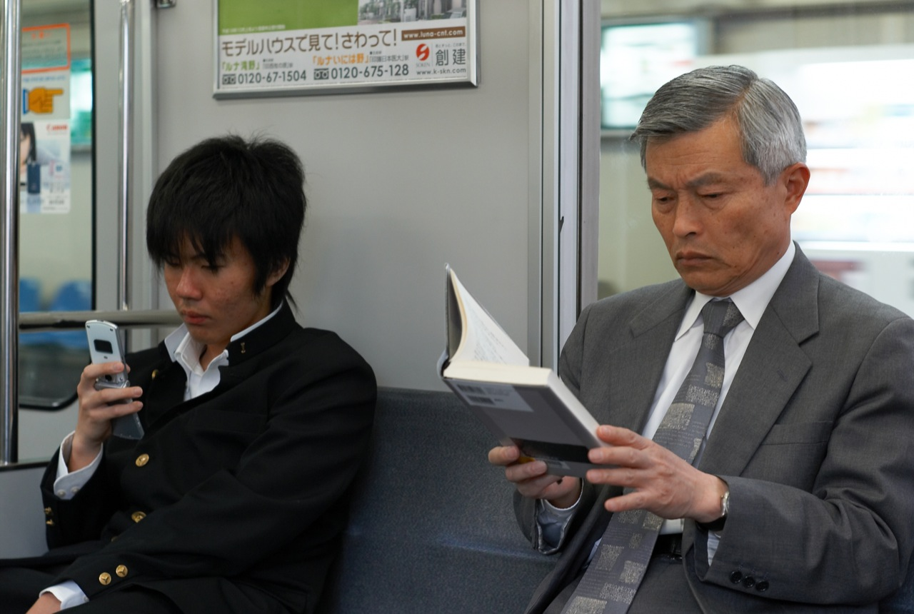 Generation Gap: a young man uses his phone, an old man reads a book